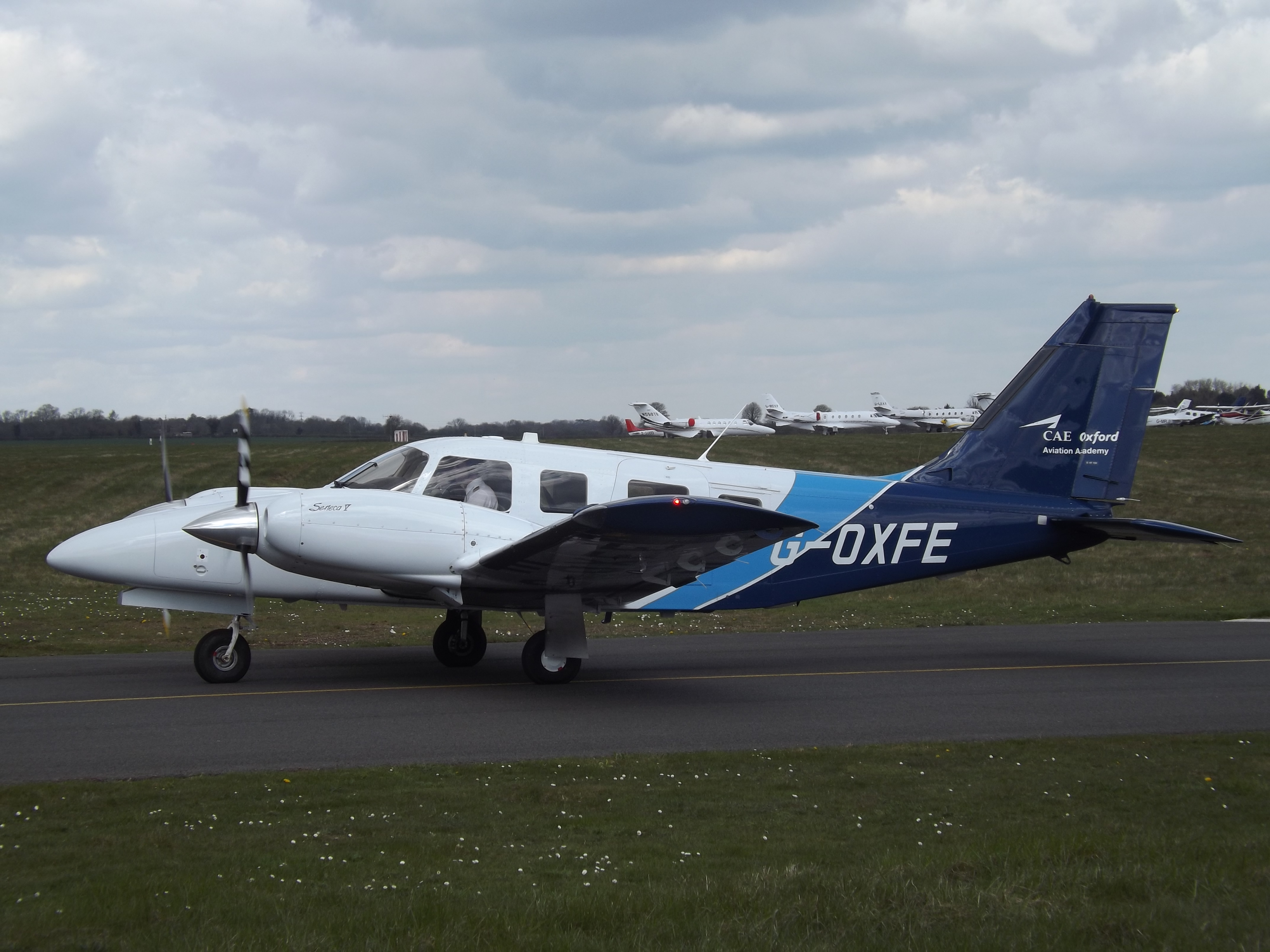 At Oxford Airport.